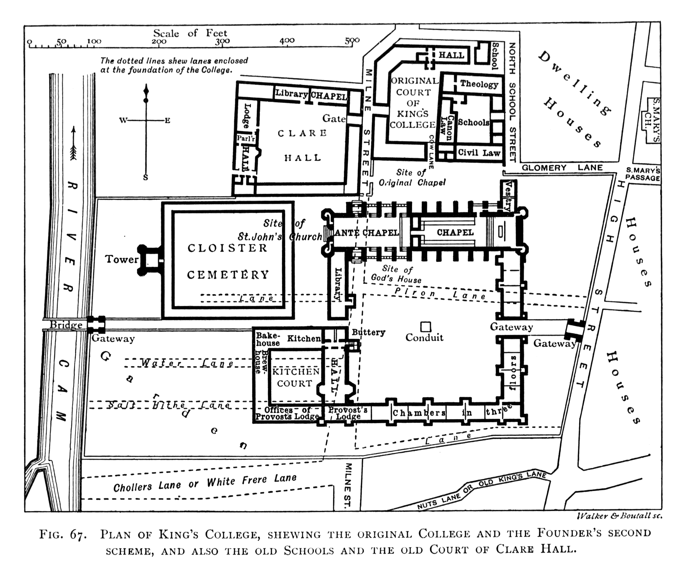 Plan showing the building scheme for King's College, Cambridge proposed in the 1440s but never completed. The plan also shows the buildings of the Old Schools and of Clare Hall as they existed at the time.